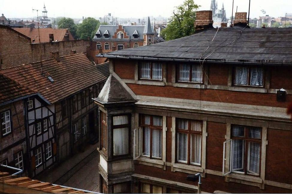 View into Körnerstraße (Schwerin) in 1985 from opposite (Puschkinstraße).